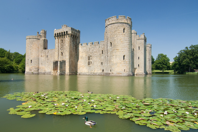 Bodiam Castle